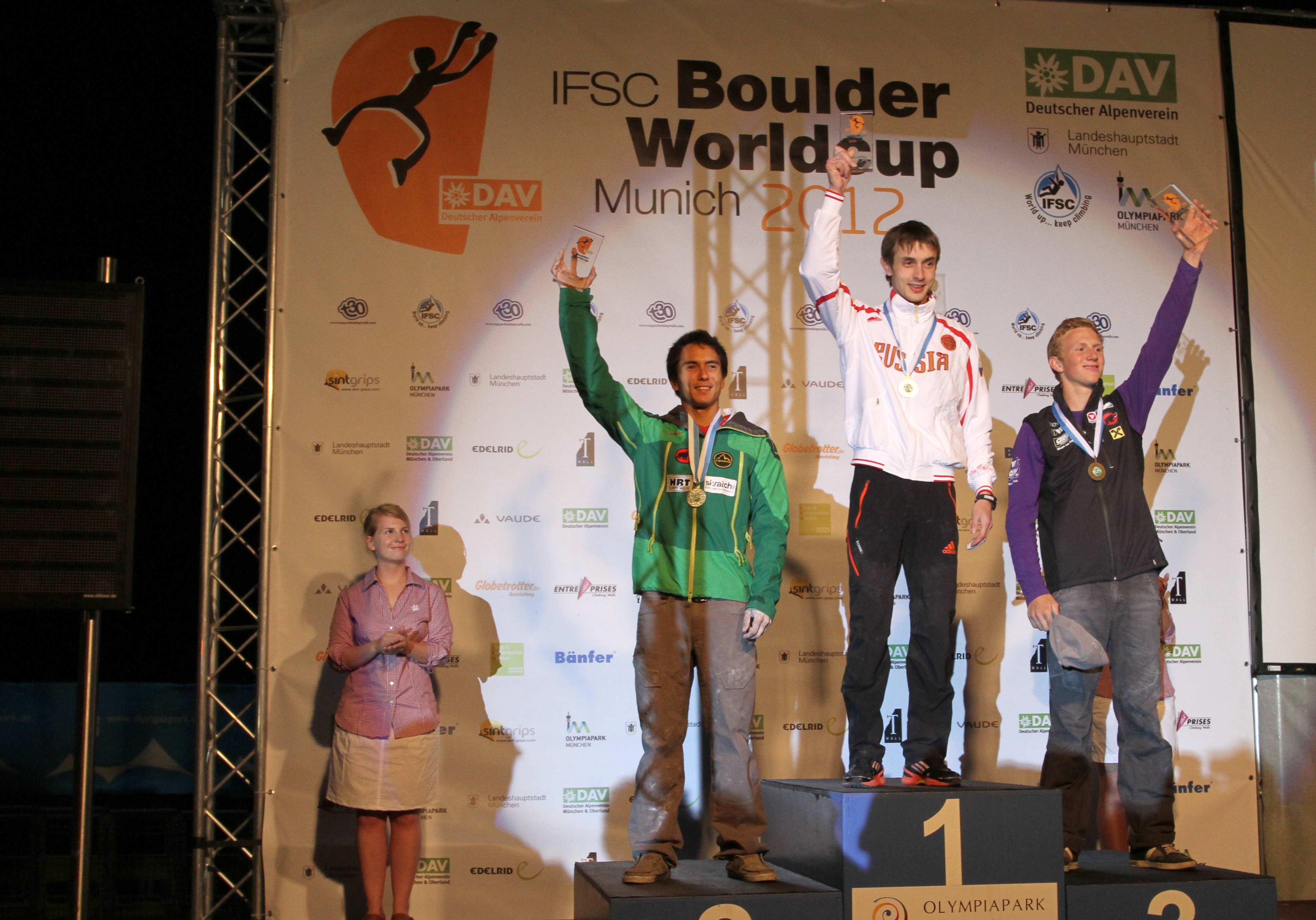 Male winners of the Climbing Worldcup event in Munich, 1. Dmitrii Sherafutdinov RUS 2. Sean McColl CAN, 3. Jakob Schubert, AUS